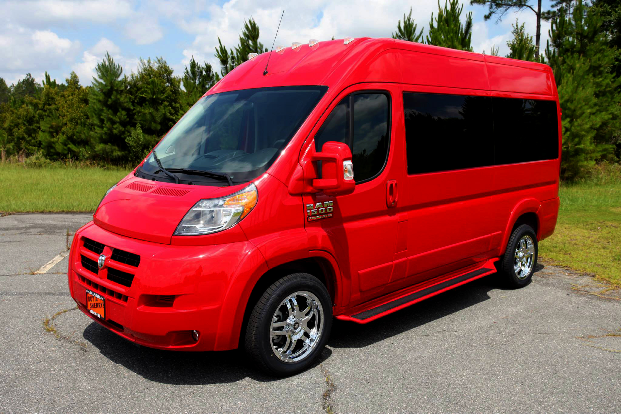 This high top van has more head room than any other van on the market! Find them at Paul Sherry Conversion Vans